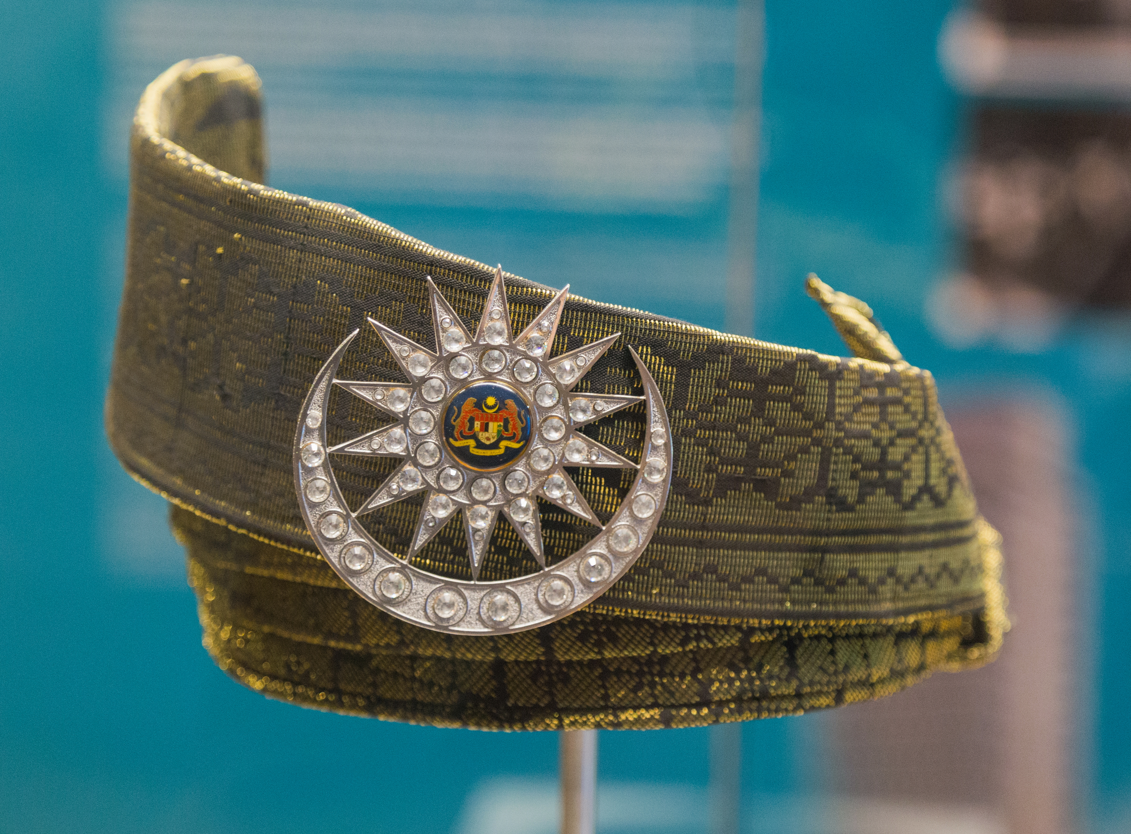 The Royal headdress - worn by the Yang di-Pertuan Agong during his Royal Installation Ceremony and important state ceremonies. . National Museum (Muzium Negara). Kuala Lumpur, Malaysia.